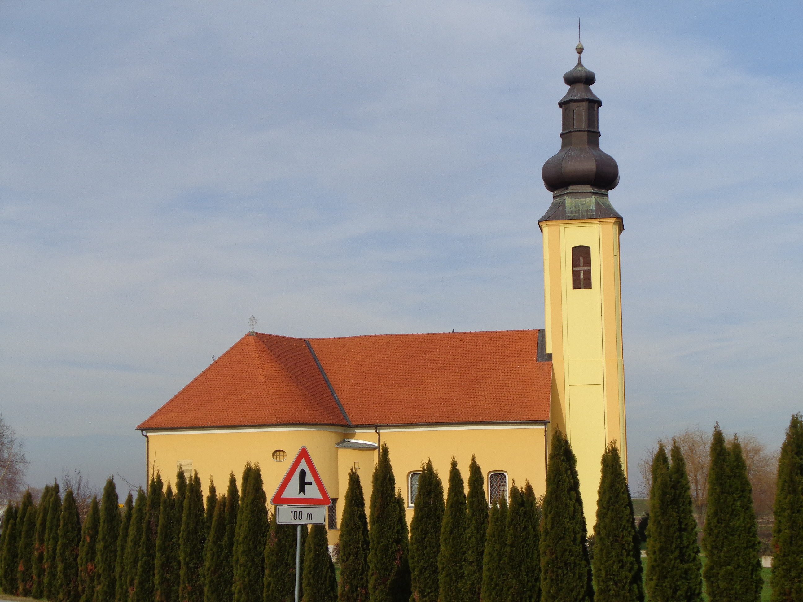 The Holy Cross Church in Sveti Križ village, Medjimurje County, Croatia - east view